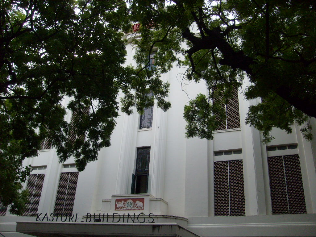 Frontal view of the office of the The Hindu at Anna Salai, Chennai